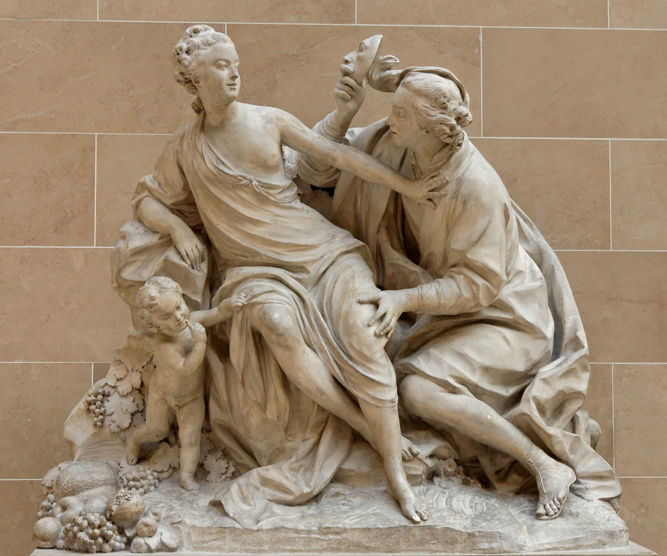 Created as a tribute to Louis XV and Madame de Pompadour, who had played the role in Versailles.